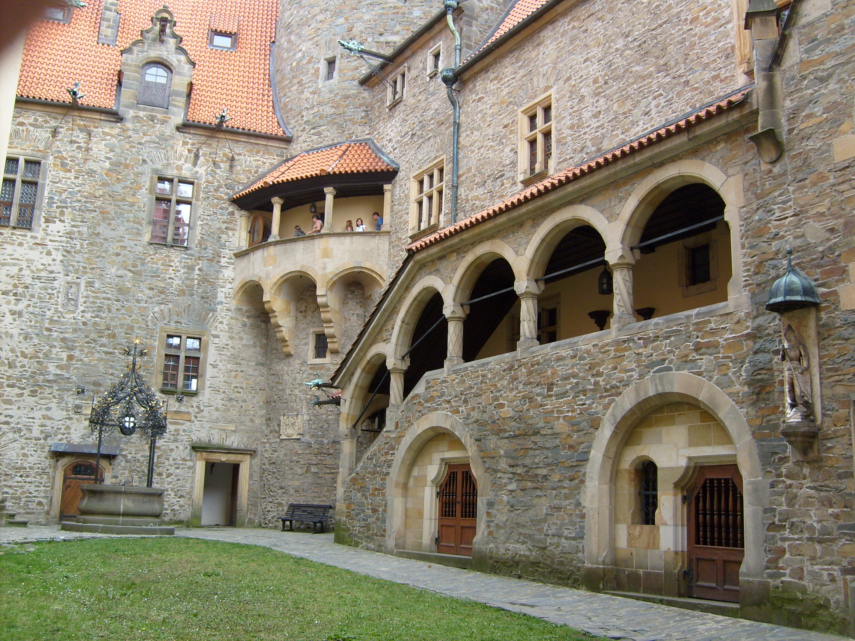 Bouzov Castle, Olomouc Region, Czech Republic